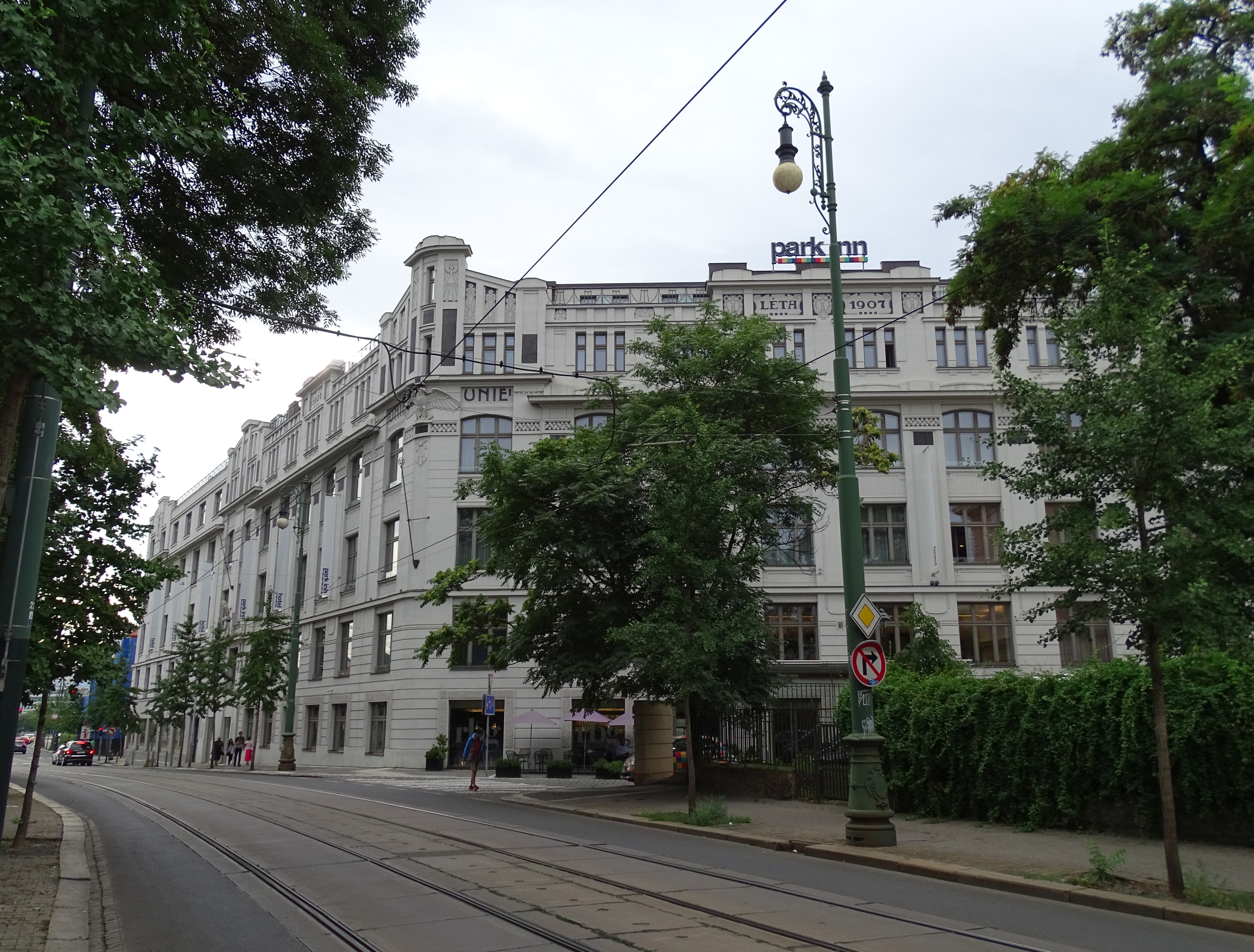 Prague-New Town, Czech Republic. Svobodova 1961/1, Park Inn Hotel Prague.